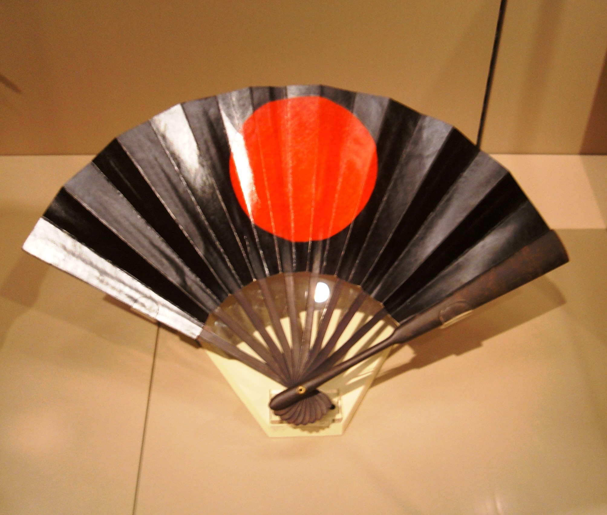 Japanese war fan (gunsen) made of iron, bamboo and lacquer depicting the sun (1800-50) on display at the Asian Art Museum in San Francisco, California. Object ID: F1998.40.25